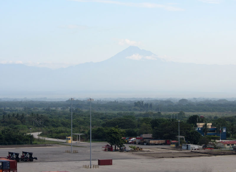 Volcan Tacana